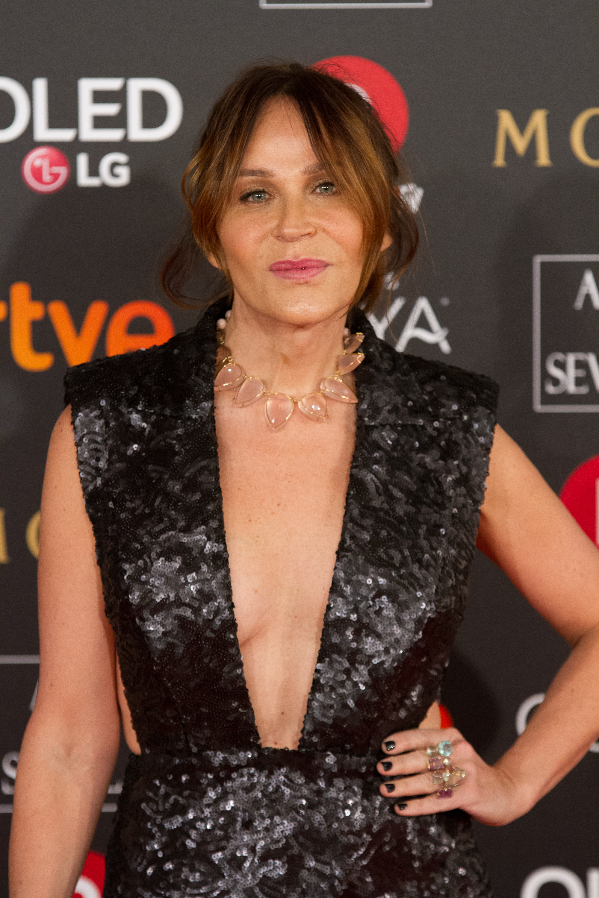 32nd Goya Awards, 2018.